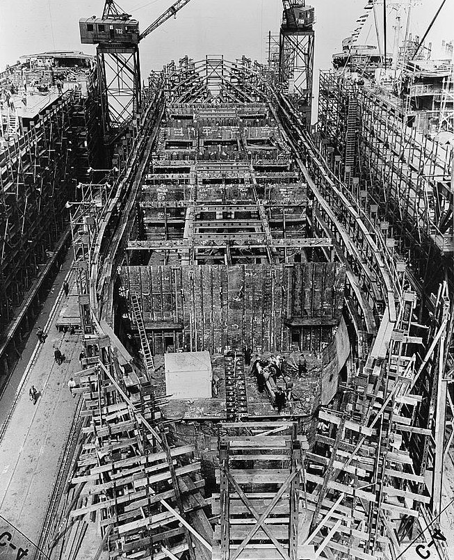 Construction of a Liberty ship at Bethlehem-Fairfield Shipyards Inc., Baltimore, Maryland (USA) in March/April 1943. Original caption:”On the sixth day, 850 tons of the ship are in place. Bulkheads and girders below the second deck are in place. The bulkheads and inner bottom tanks were prefabricated.”